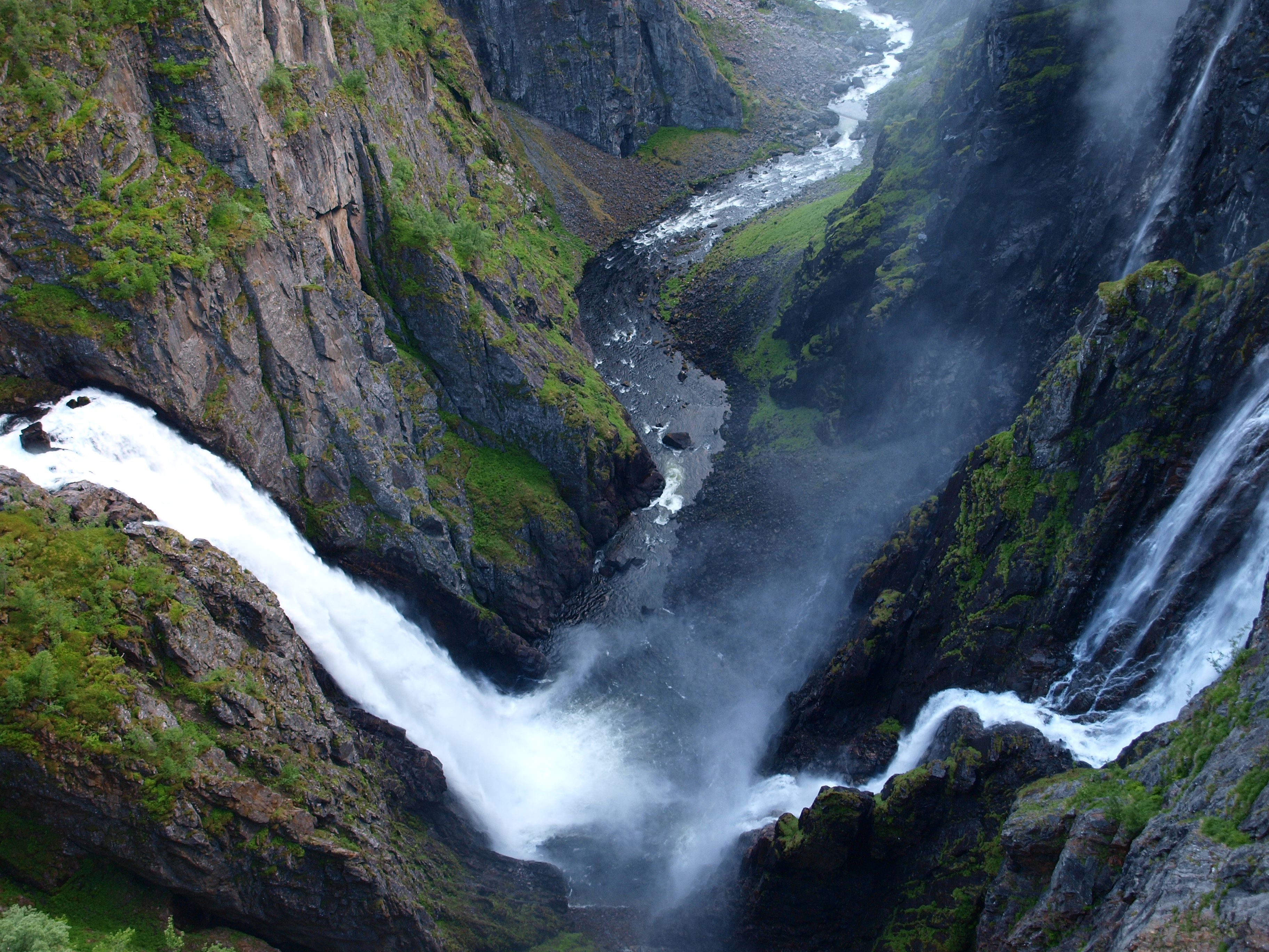 Vøringsfossen at the start of Måbødalen. The free waterfall is 145 meter, and in total 182 meter.